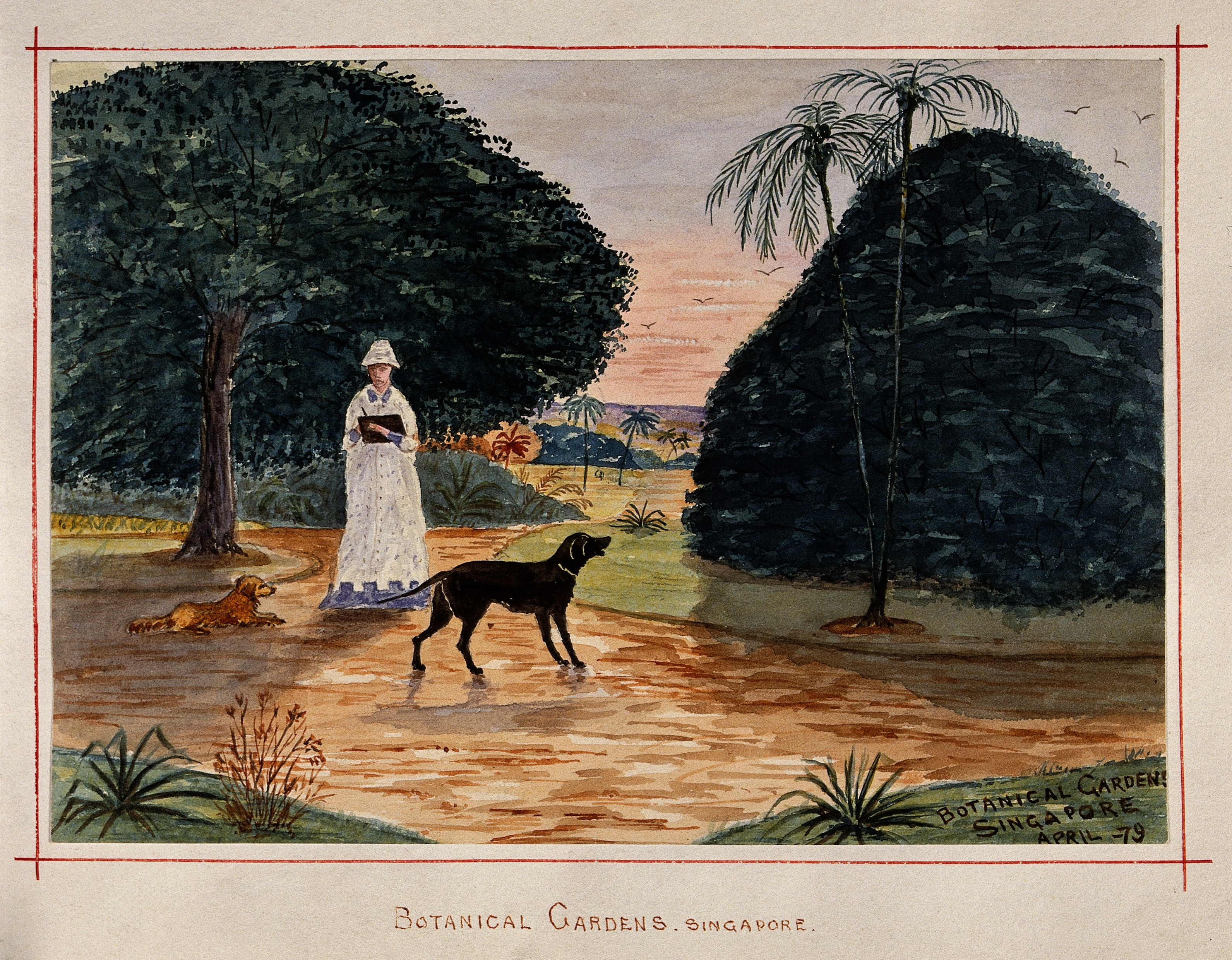 A watercolor painting of a woman with two dogs in the Singapore Botanic Gardens.